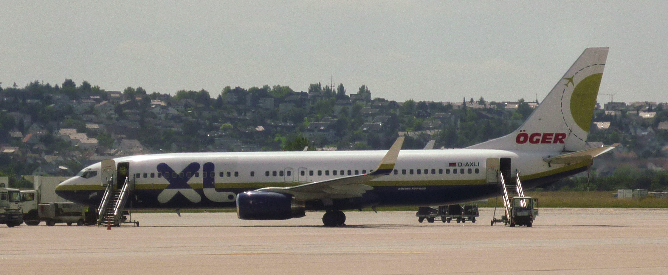 XL Airways Germany Boeing737-800 D-AXLI at Stuttgart Airport.